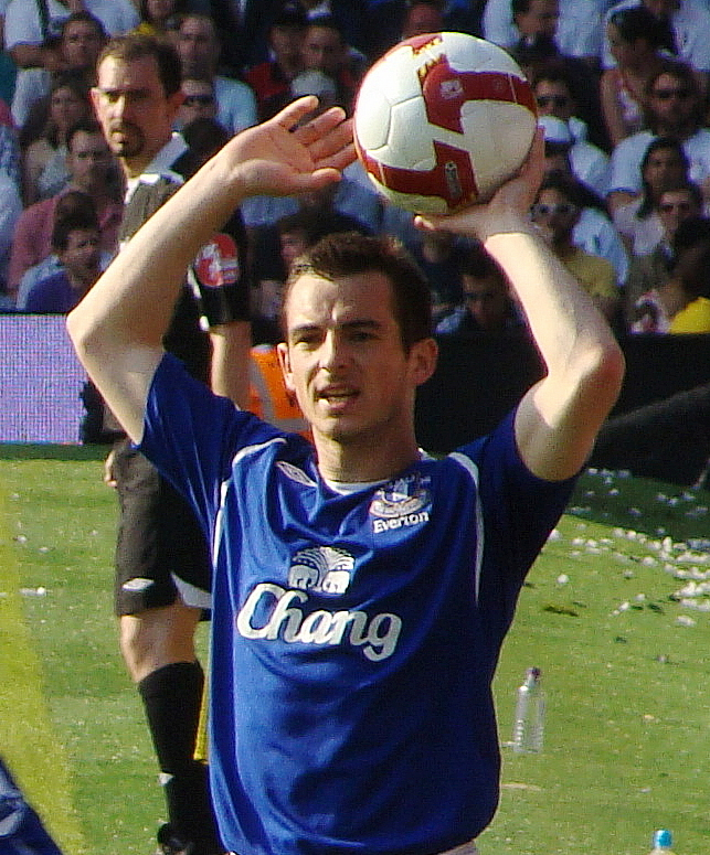 Leighton Baines of Everton F.C. getting ready to throw in against Fulham F.C.